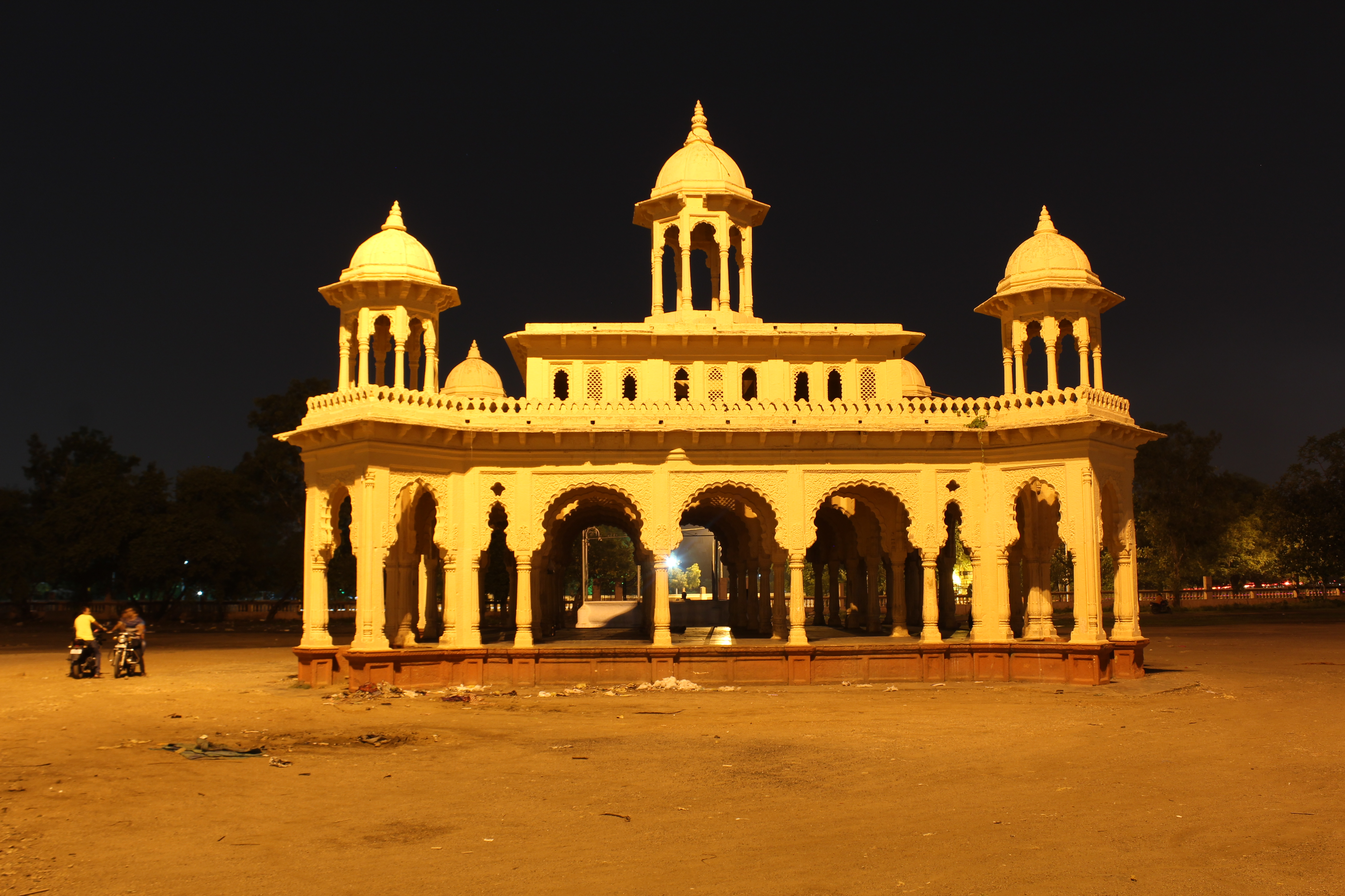 This ground said to be donated by Late Shree Kasturchand Daga, named after him. Location wise its located in the very heart of Nagpur. It has witnessed All major Political leaders addressed in this ground, apart from that its used for various exhibitions as well as football tournament. Now it is going to become intersection point for upcoming Metro Rail.